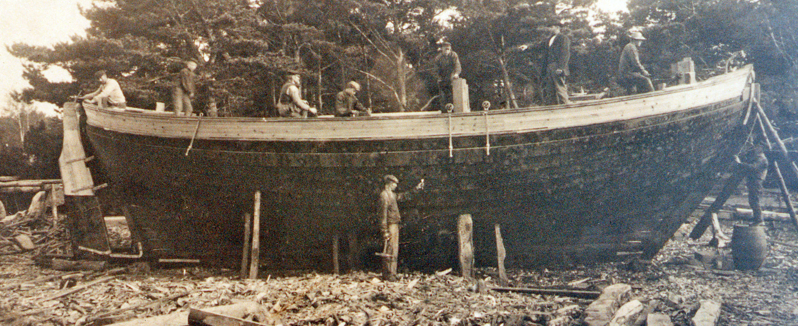 Sailing fishingboat. Elsa of Stömstad prepared for launching. Carl Stjern is the second man from right on the foredeck, he was pointing.